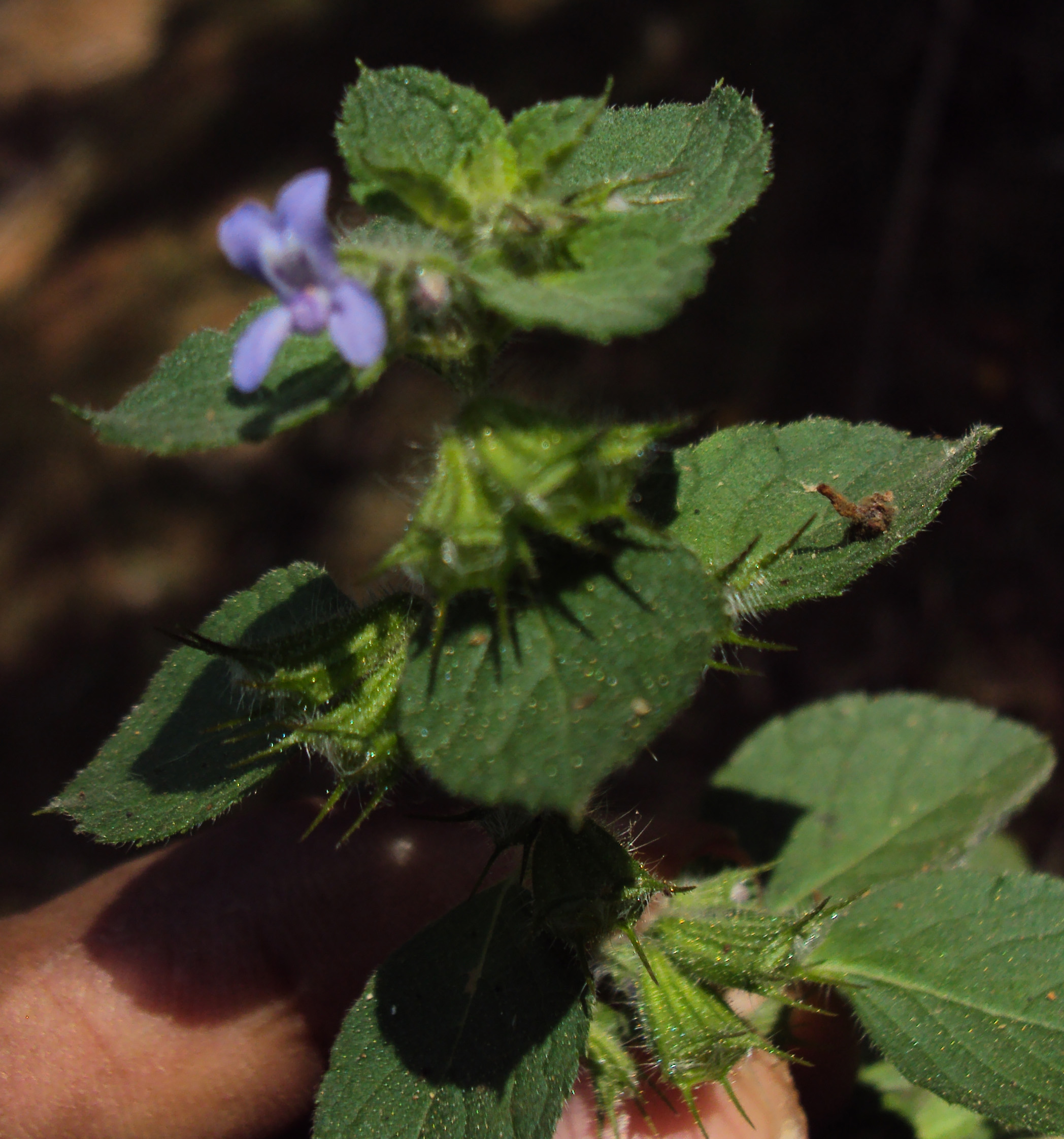 Hyptis suaveolens